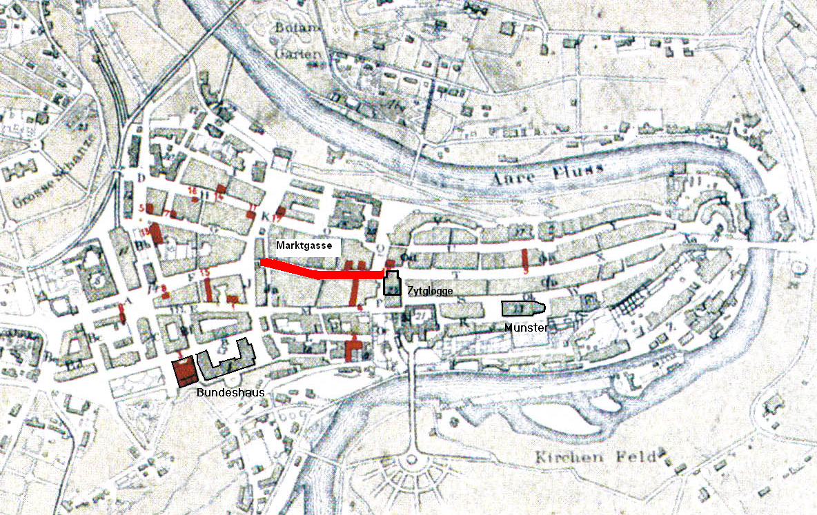 City plan of Bern, 1882. Scanned from BERN: Eine Stadt vor 100 Jahren, Bilder und Berichte; Peter Lauenberger, Emil Erne; München 1997; p. 7. Originally from Bern und seine Umgebungen, C.H. Mann, 1882 in the Alpines Museum of Bern. Due to the age of the image, it must be assumed that the author has been dead for more than 70 years. Copyright protection has therefore lapsed under Swiss copyright law (Art. 29 par. 3 URG).